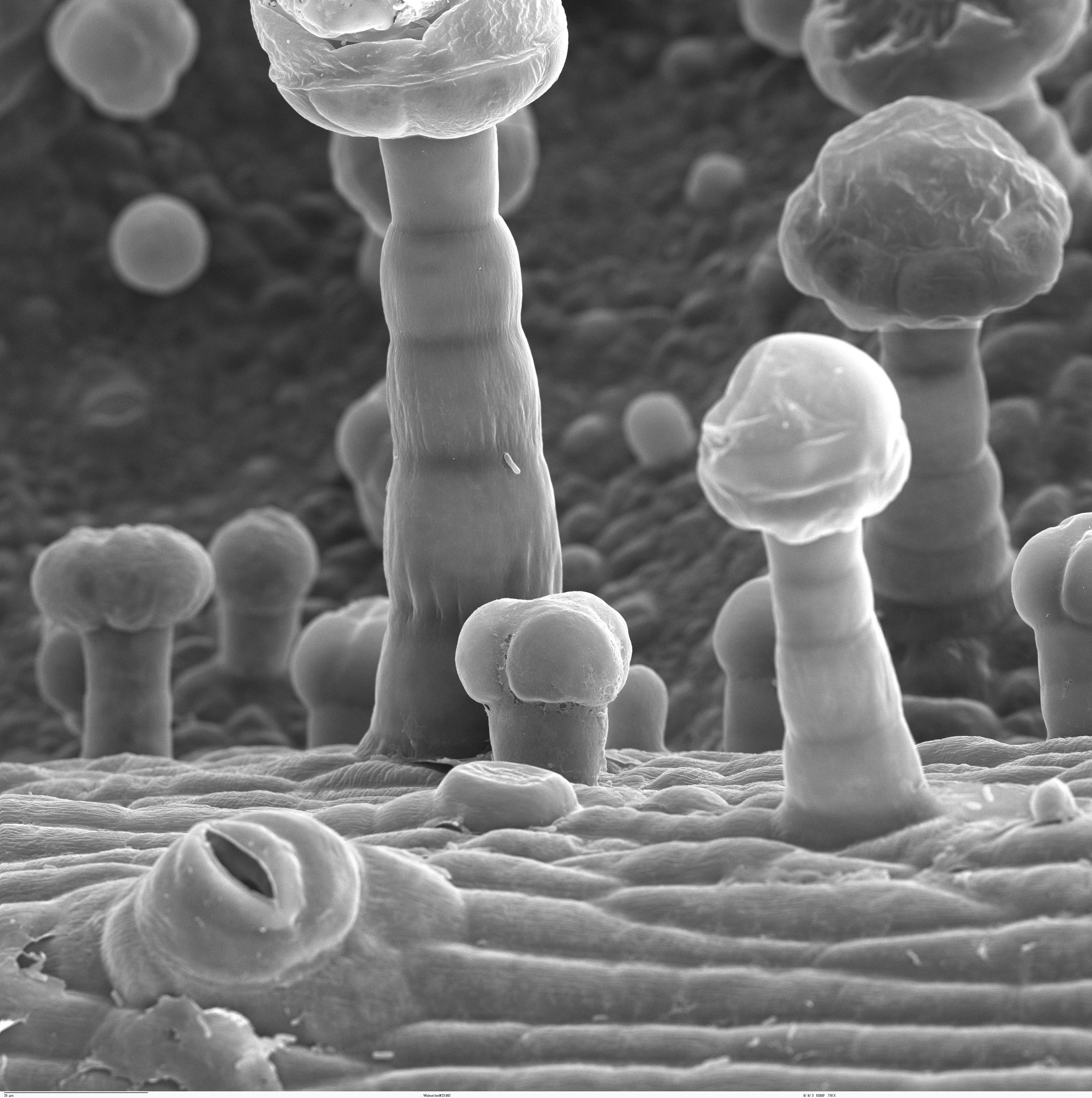 Scanning electron microscope (Instrument: ZEISS962 SEM) Hi-mag image of Juglans nigra (Black Walnut tree) lower leaf surface, showing trichomes and stomates. Juglandales Juglandaceae (walnut family) Juglans nigra Keywords: SEM, Leaf, botanical, trichome, stomate